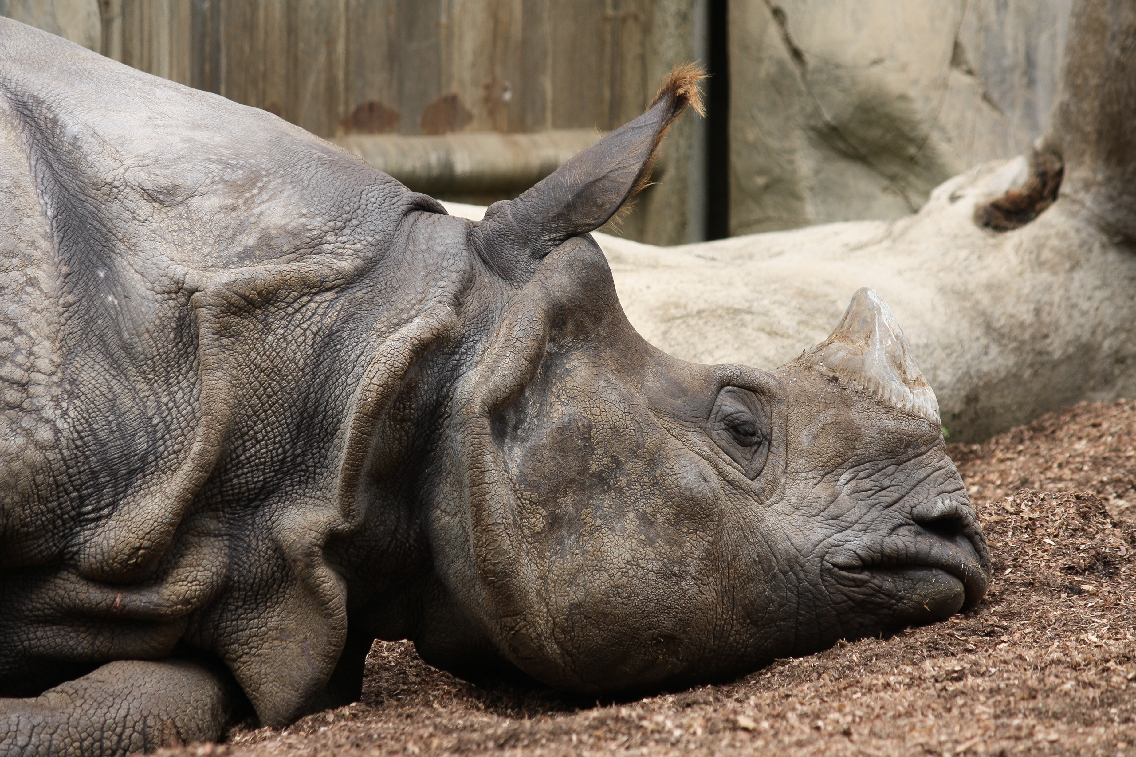 Indian rhinoceros (Rhinoceros unicornis) in San Diego Zoo, California